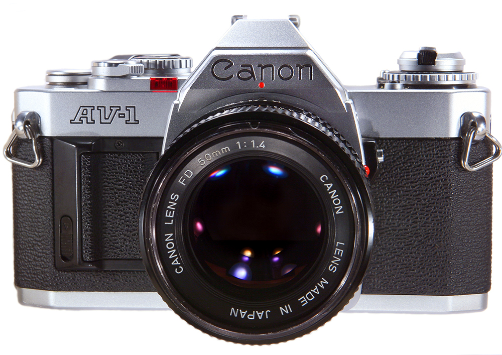 Front view of a Canon AV-1 SLR camera with Canon FD 50 mm f/1.4 lens